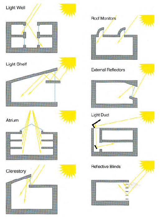 Lightning of interior parts